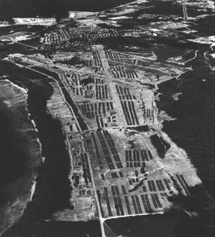 Aerial view of the refugee camp at Orote Point, Guam (USA), following the Vietnam War, circa in 1975. Note the outline of the old airfield.